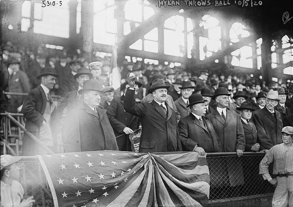 "New York City Mayor John Hylan throws ball to open World Series at Ebbets Field." Photo courtesy of Library of Congress, George Grantham Bain Collection.